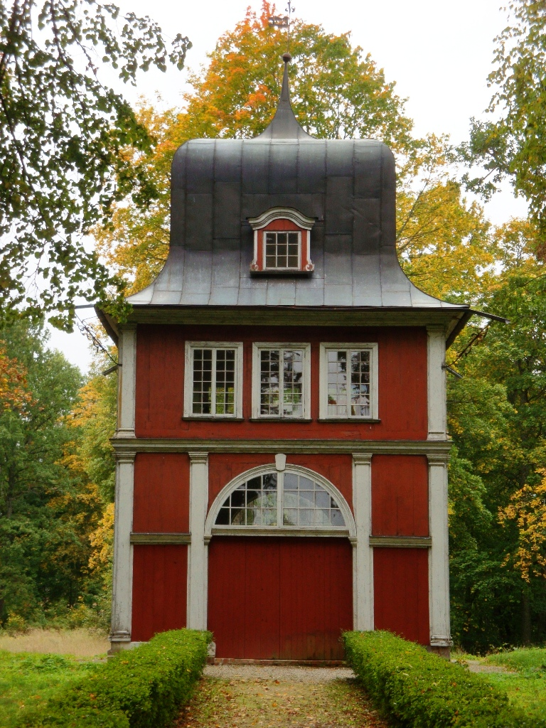 Ungurmuiža manor tea house AD1753